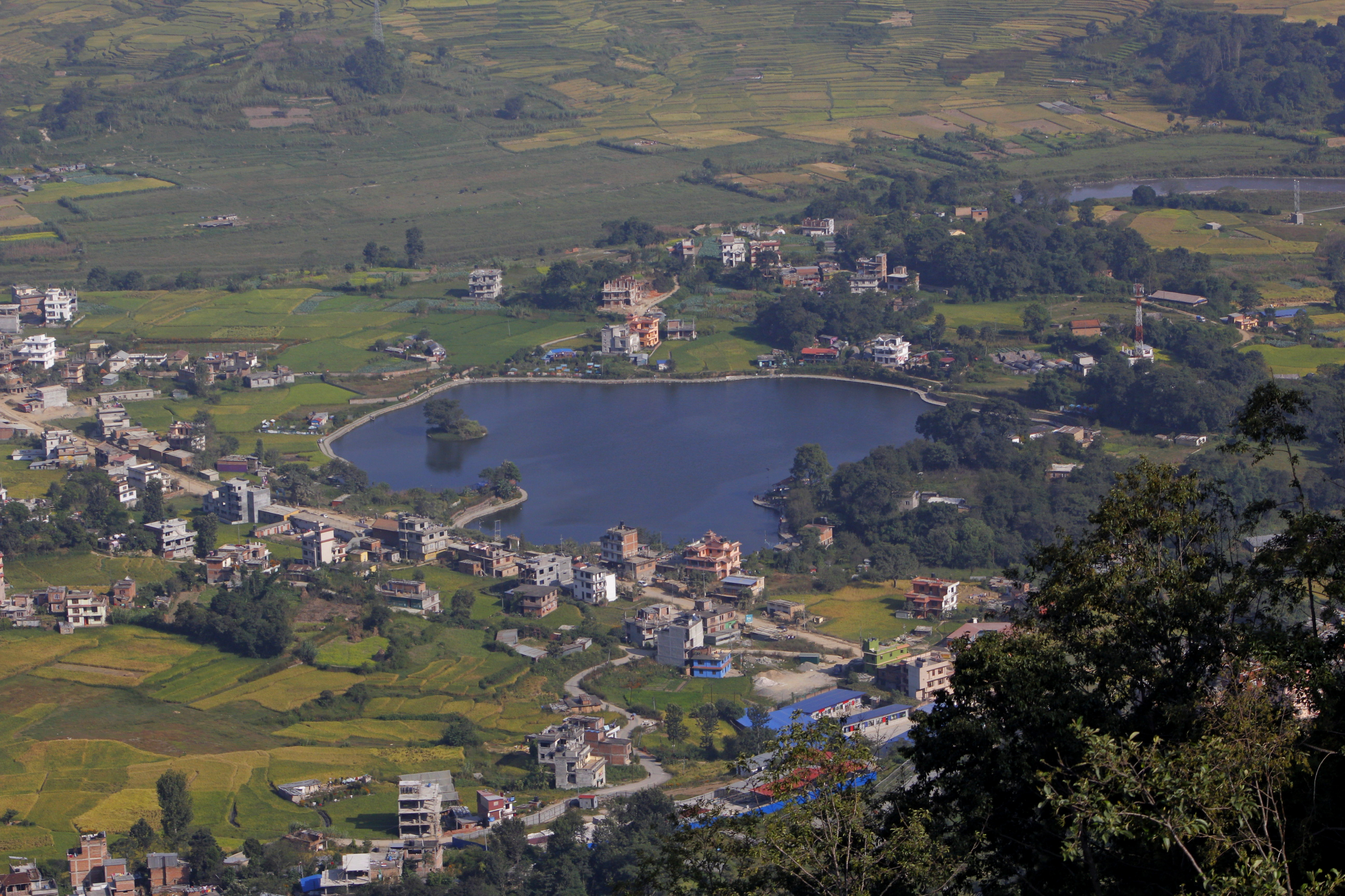 View of Taudaha Lake from White House.